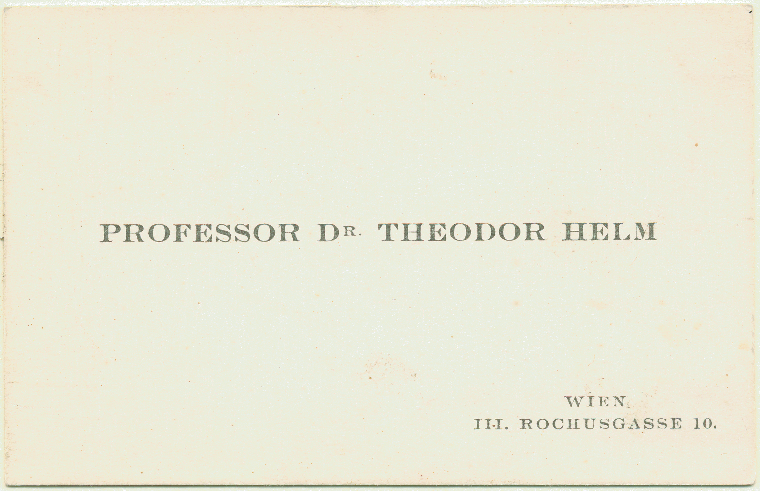 Visiting Card of Famous Austrian Music critic Theodor Otto Helm. The address III. Rochusgasse 10 in Vienna was Helm's residence for most of his life. His daughter Mathilde Helm continued to reside there after his death in 1920